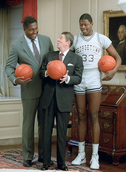 President Reagan with Patrick Ewing and John Thompson posing for cover of Sports Illustrated in the White House map room. 11/12/84